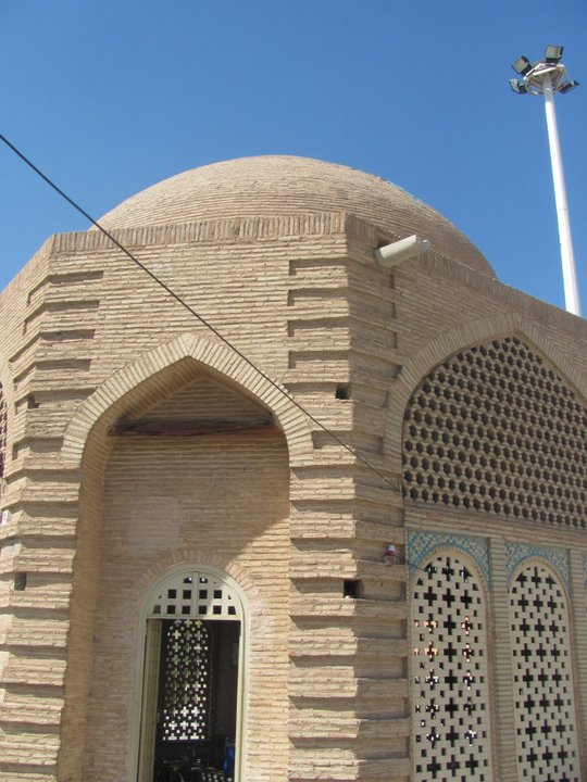 tomb of nooroddin